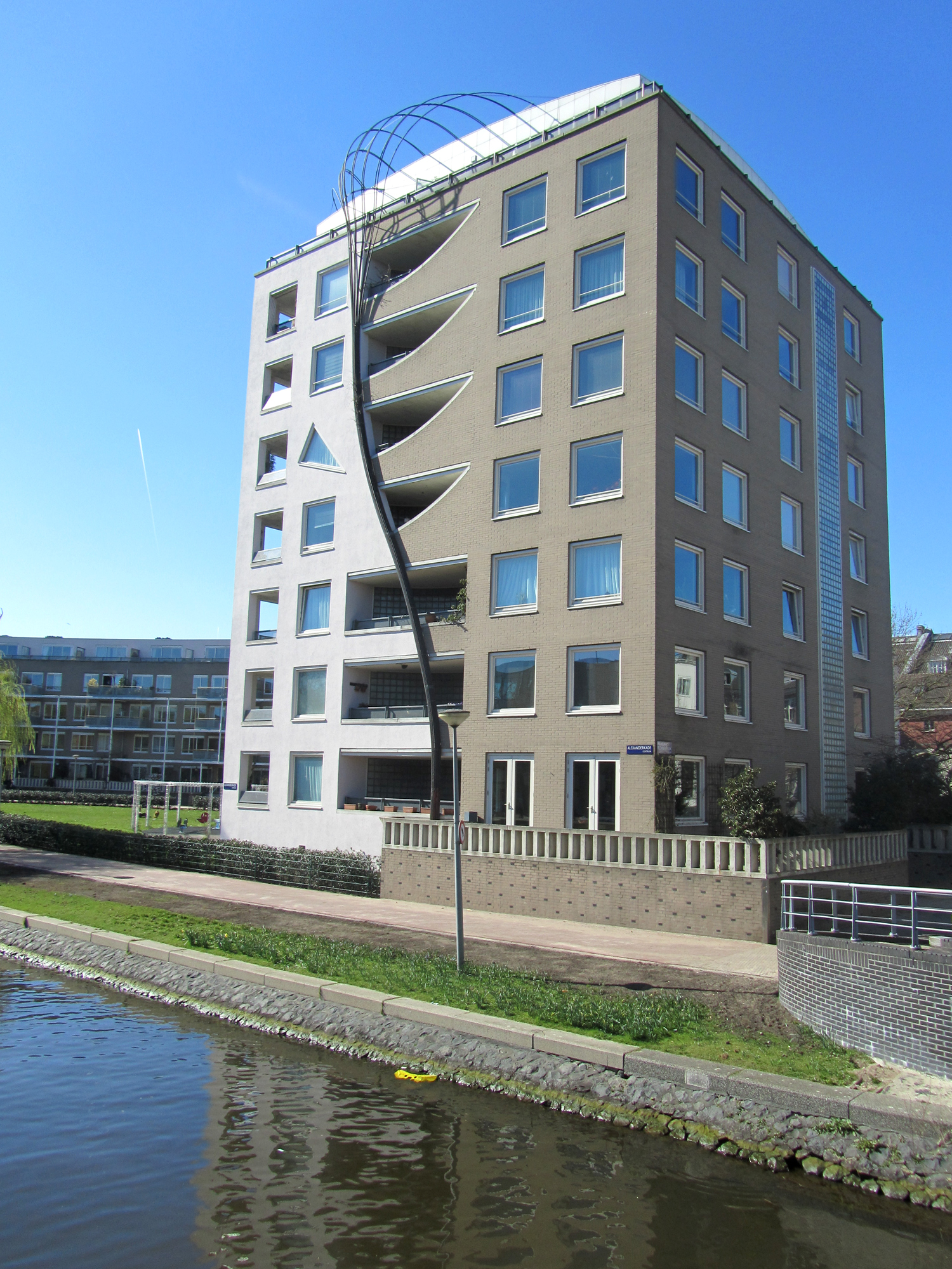 Oranje-Nassau Kazerne tower 1. Alexanderkade, Amsterdam.